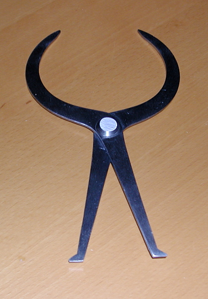 combinantion inside outside dividers / Tanzmeister - With the notches you can measure e.g. the inner diameter of tubewalls. The other side can measure the thinkness of walls or hard to measure outside diameters.